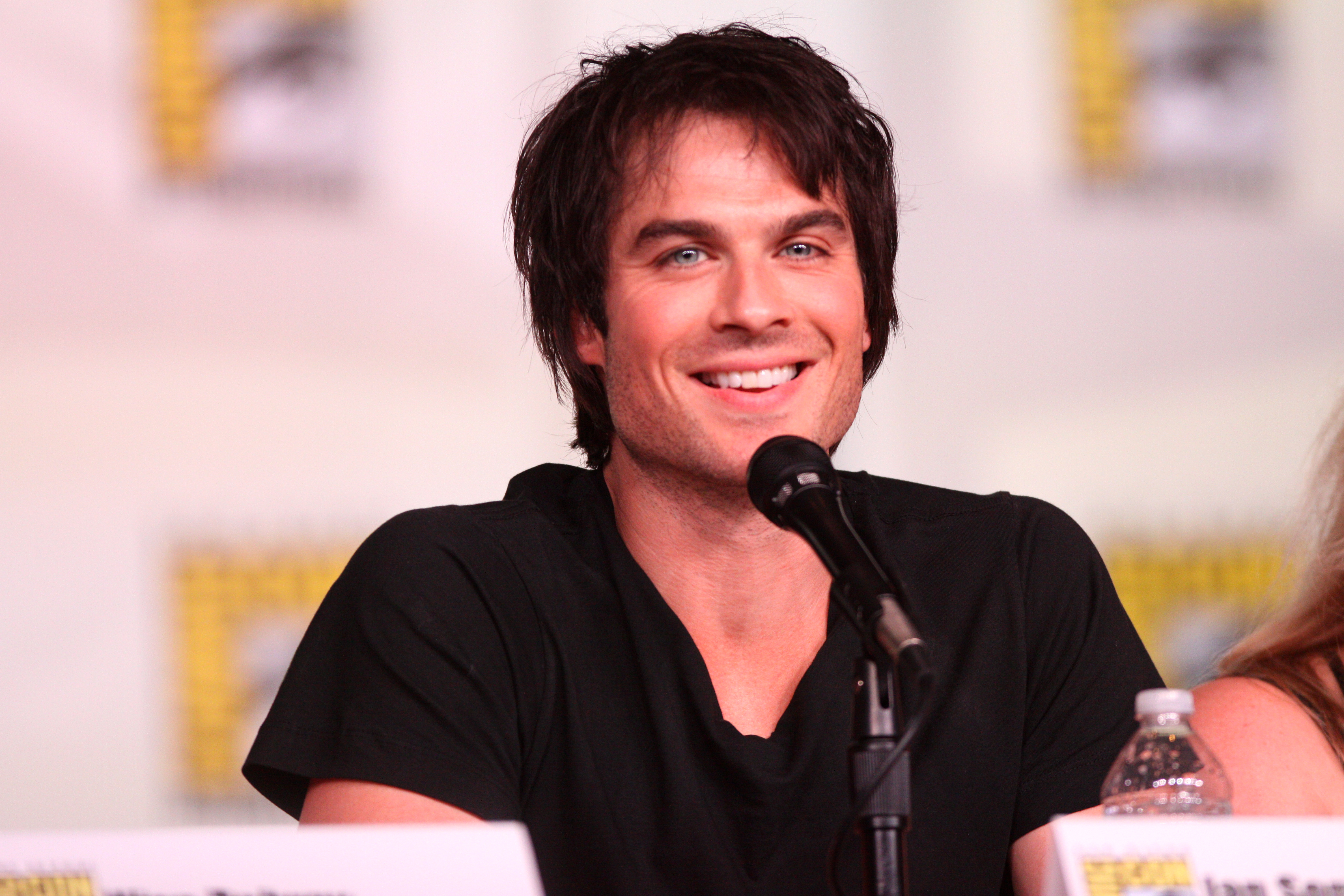 Ian Somerhalder speaking at the 2012 San Diego Comic-Con International in San Diego, California.